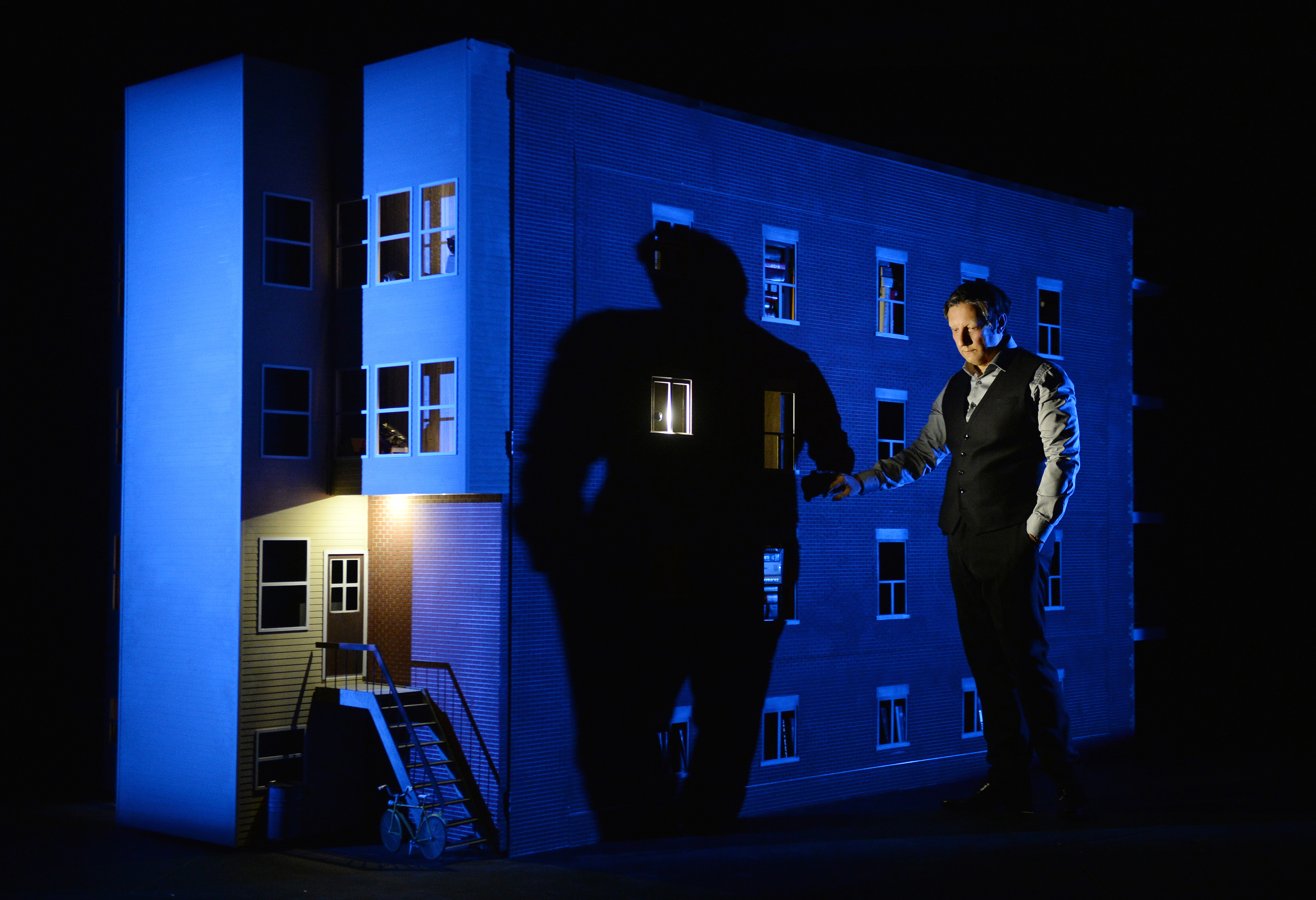 The Western Canadian Premiere of Robert Lepage's 887. Photo courtesy of Ex Machina.